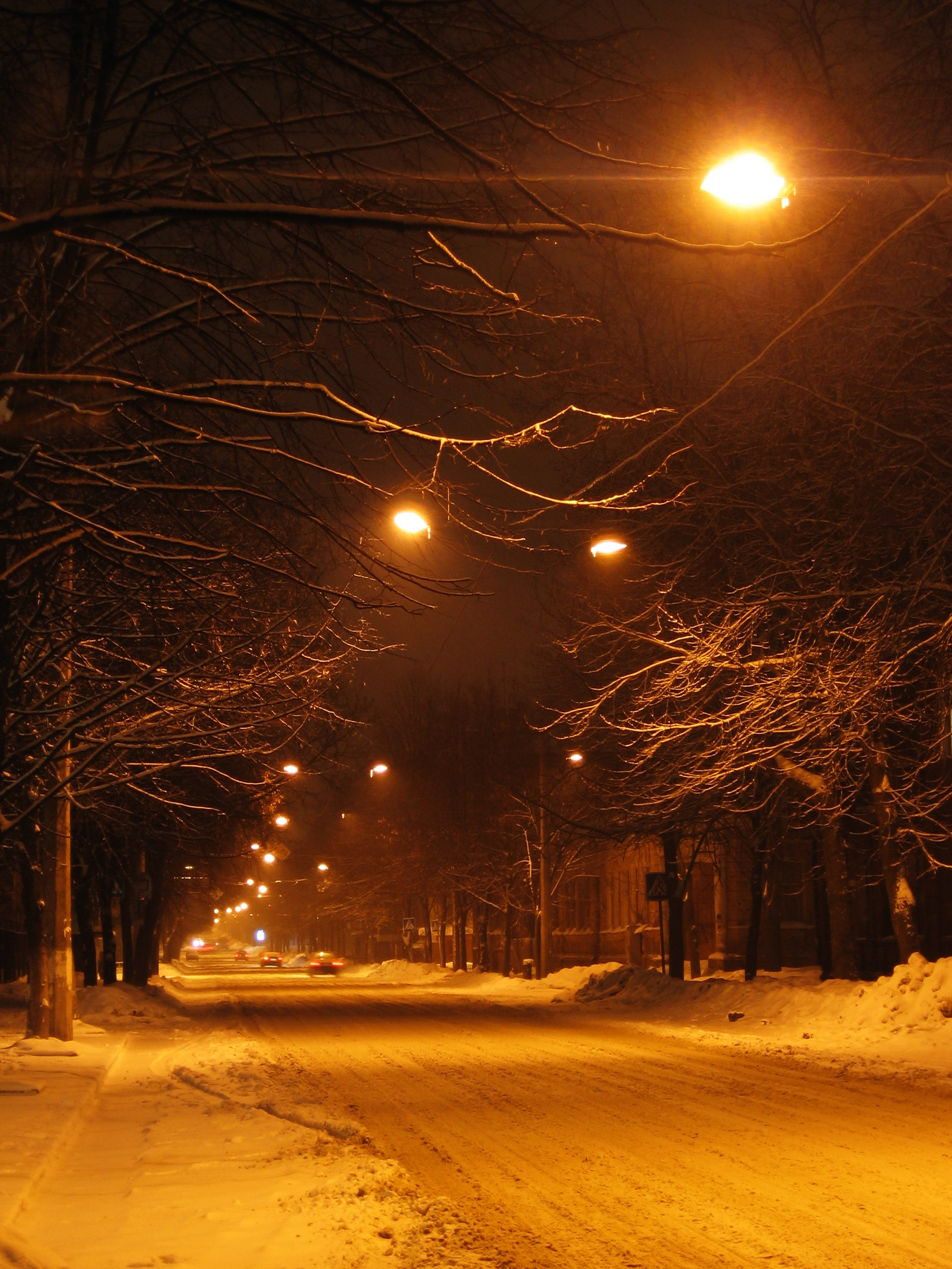 Mironositskaya street at night